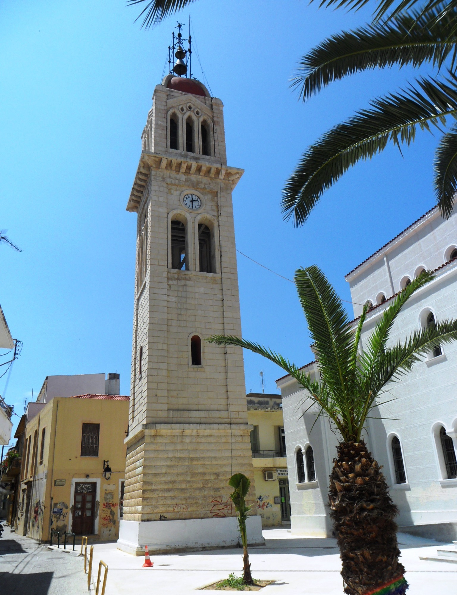 Cathedral (Mitropolis) bell tower of Rethymno, Greece